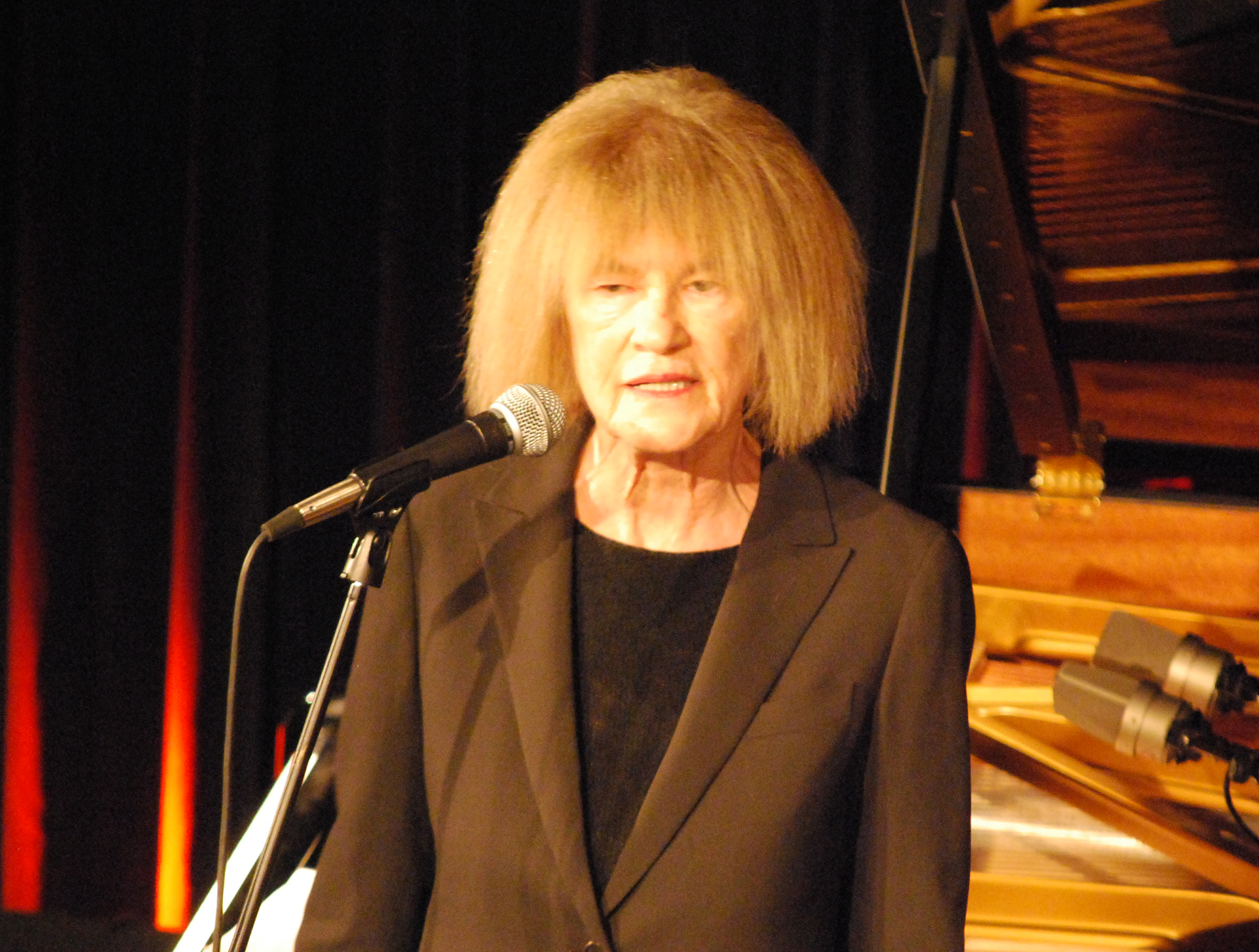 Carla Bley, Treibhaus Innsbruck 2009. Concert with Billy Drummond, Steve Swallow, Andy Sheppard